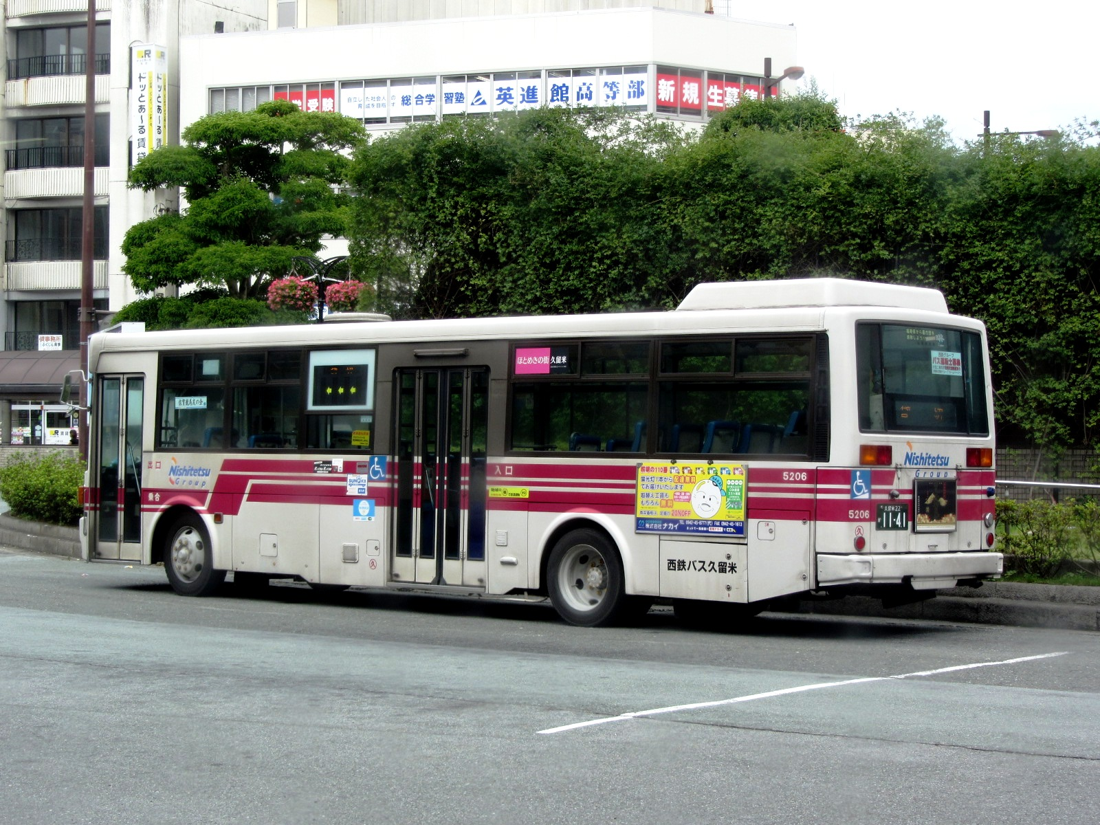 Nissan Diesel JP KC-JP250NTN for Nishitetsu Bus Kurume #5206